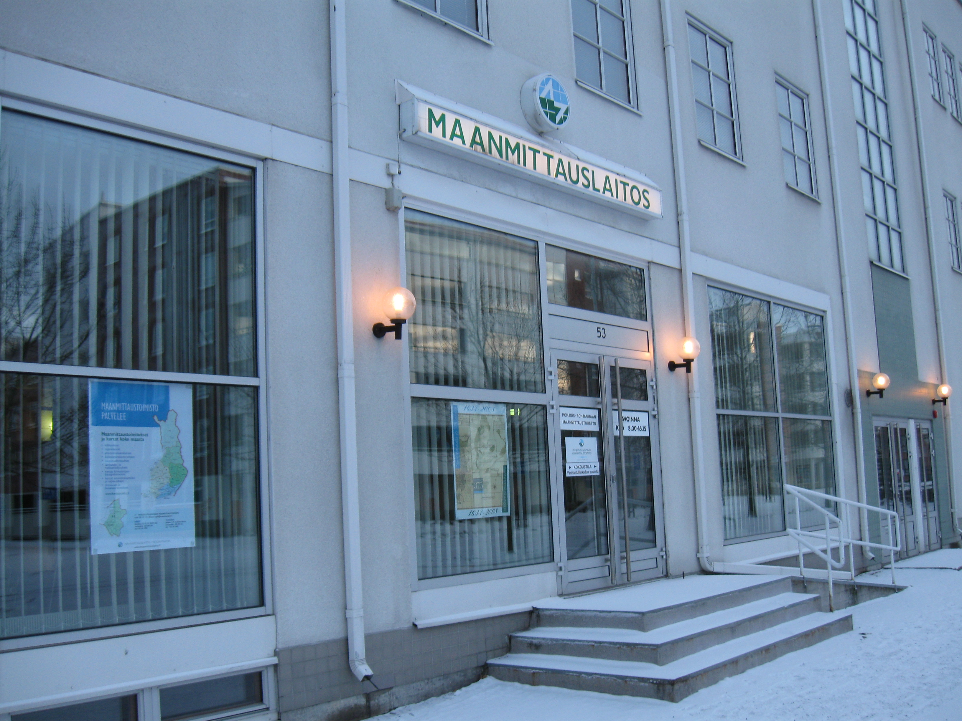 The office of National Land Survey of Finland in Oulu, at the Kansankatu street.